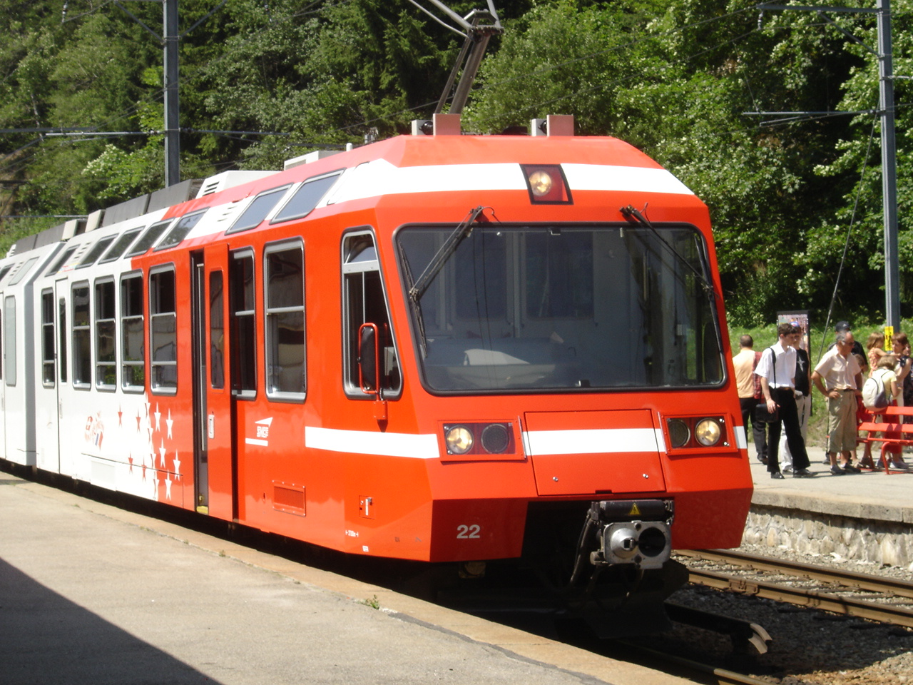 Electrical multiple unit BDeh 4/8 22 (consisting of vehicles 823 and 824) of Transports de Martigny et régions in the border station of Châtelard-Frontière)